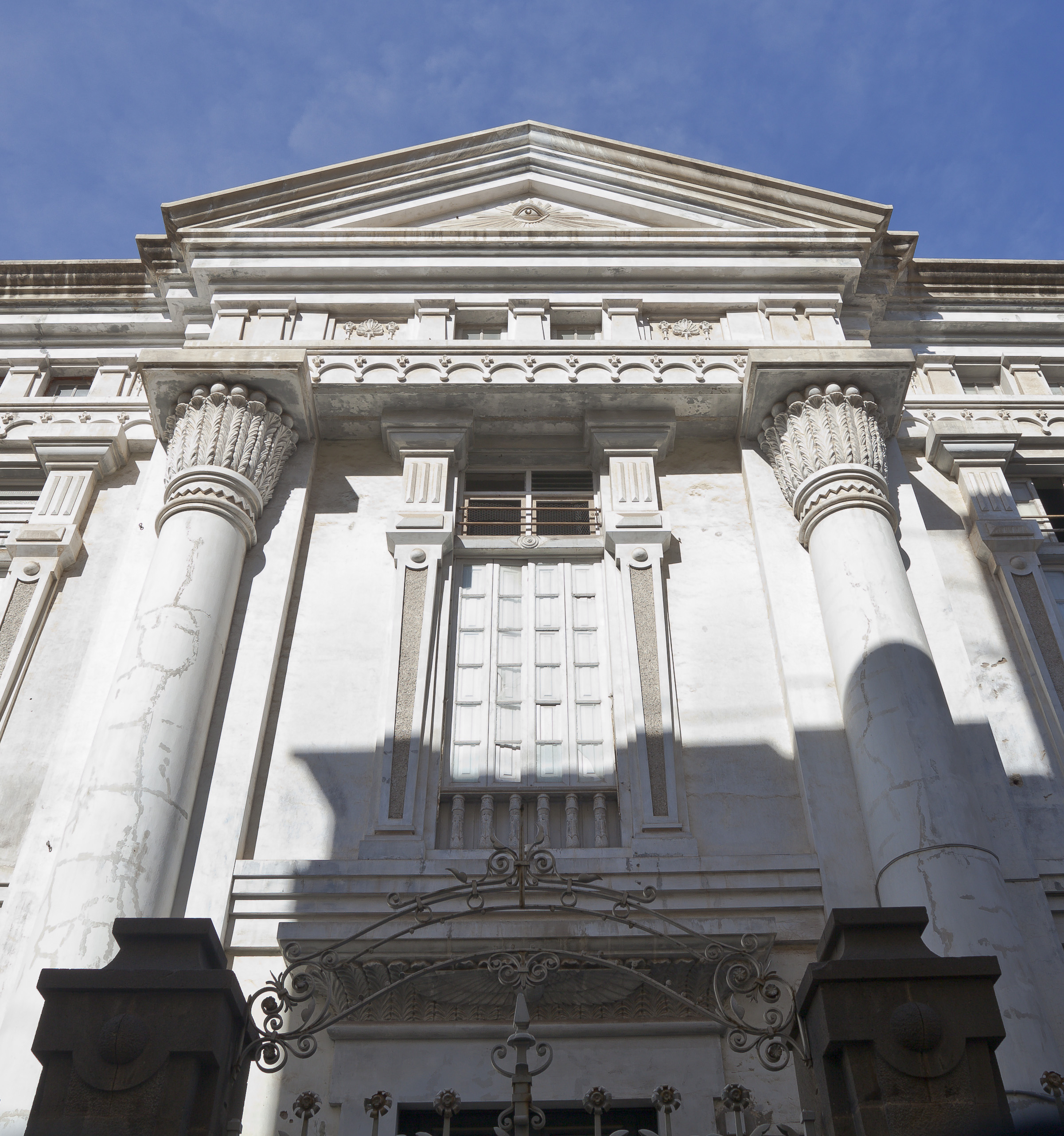 Historic masonic temple, Santa Cruz de Tenerife, Spain